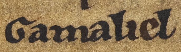 An excerpt from folio 50v of British Library MS Cotton Julius A VII (the Chronicle of Mann). The excerpt reads in Latin "Gamaliel". The excerpt concerns Gamaliel, Bishop of the Isles.